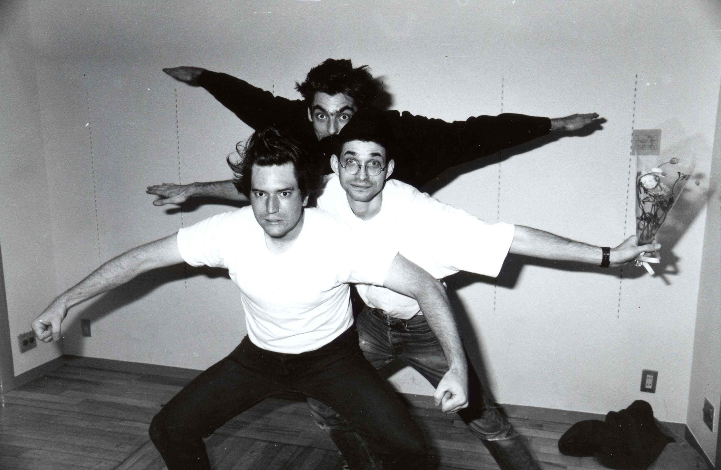 Steve Albini's band Shellac, Albini is a very famous producer (Nirvana, etc). Shellac was founded by Albini after Big Black broke up. This photo was taken at Shibuya, Japan.